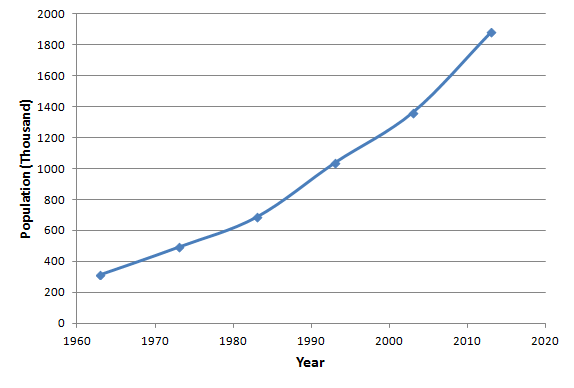 Historical population of the African country of The Gambia, as enumerated by the Central Statistics Department's (CSD) censuses